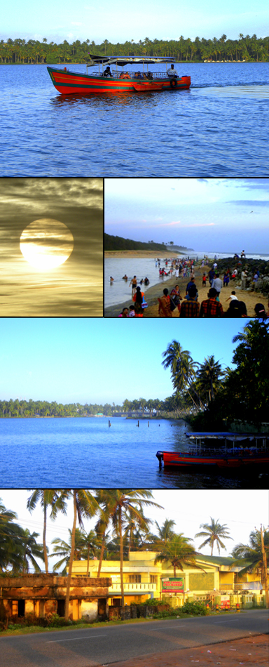 Paravur Thekkumbhagam is a most neglected celestial backwater location in Kollam district. Authorities and politicians are neglecting this scenic location continuously without starting any valuable tourism project.